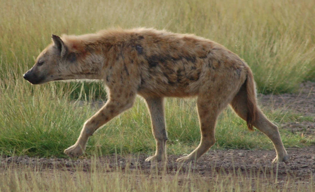 Spotted hyena, Amboseli National Park